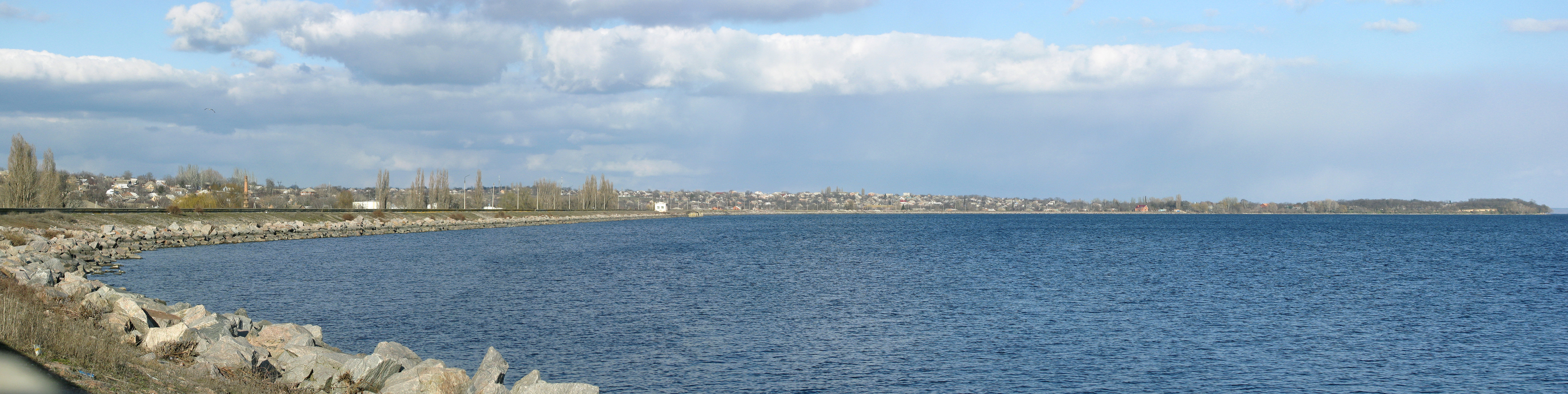 Panorama of Novopavlovka (Nikopol), Ukraine